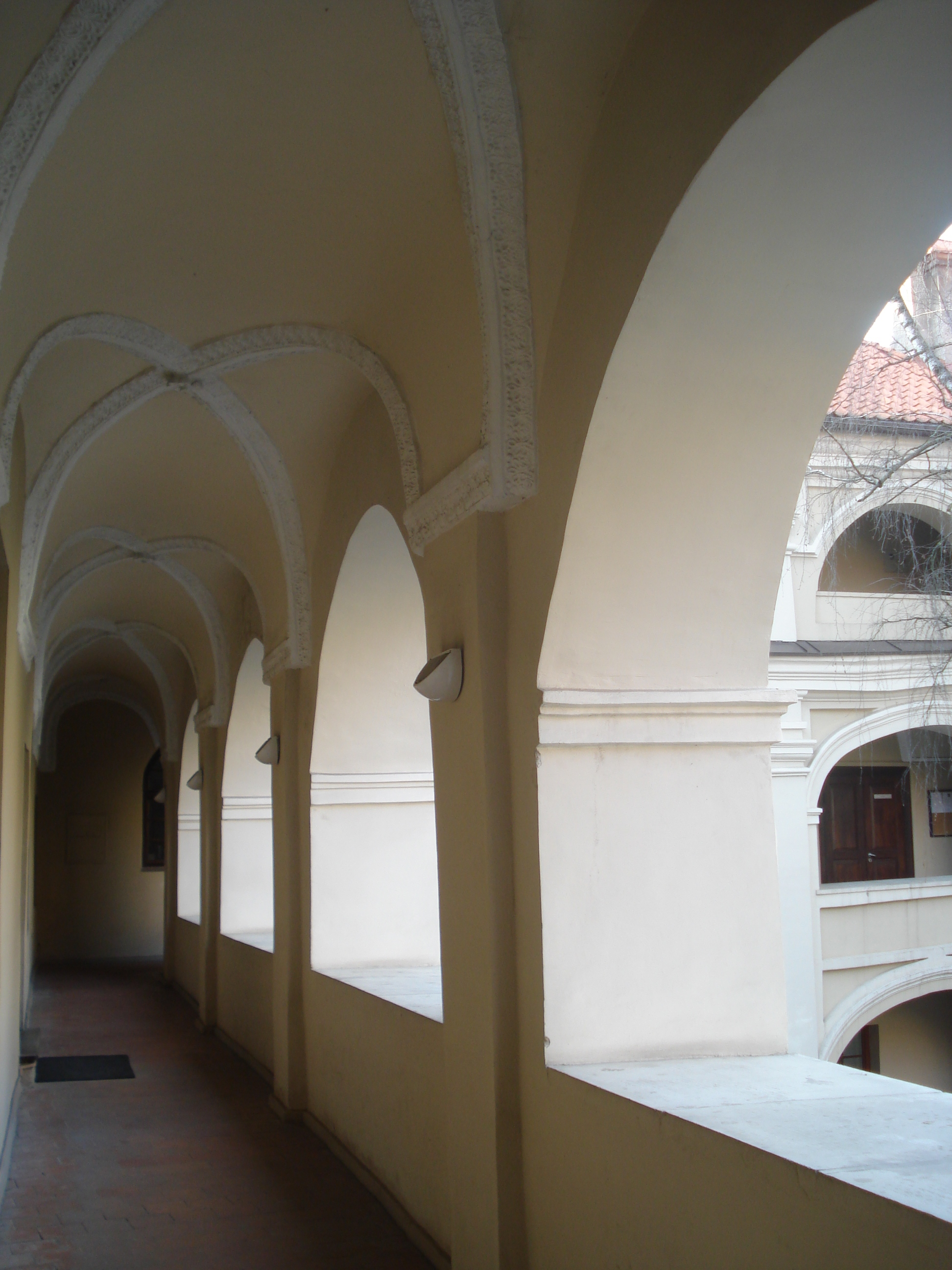 Alumnat in Vilnius (1622; Universiteto g. 4)